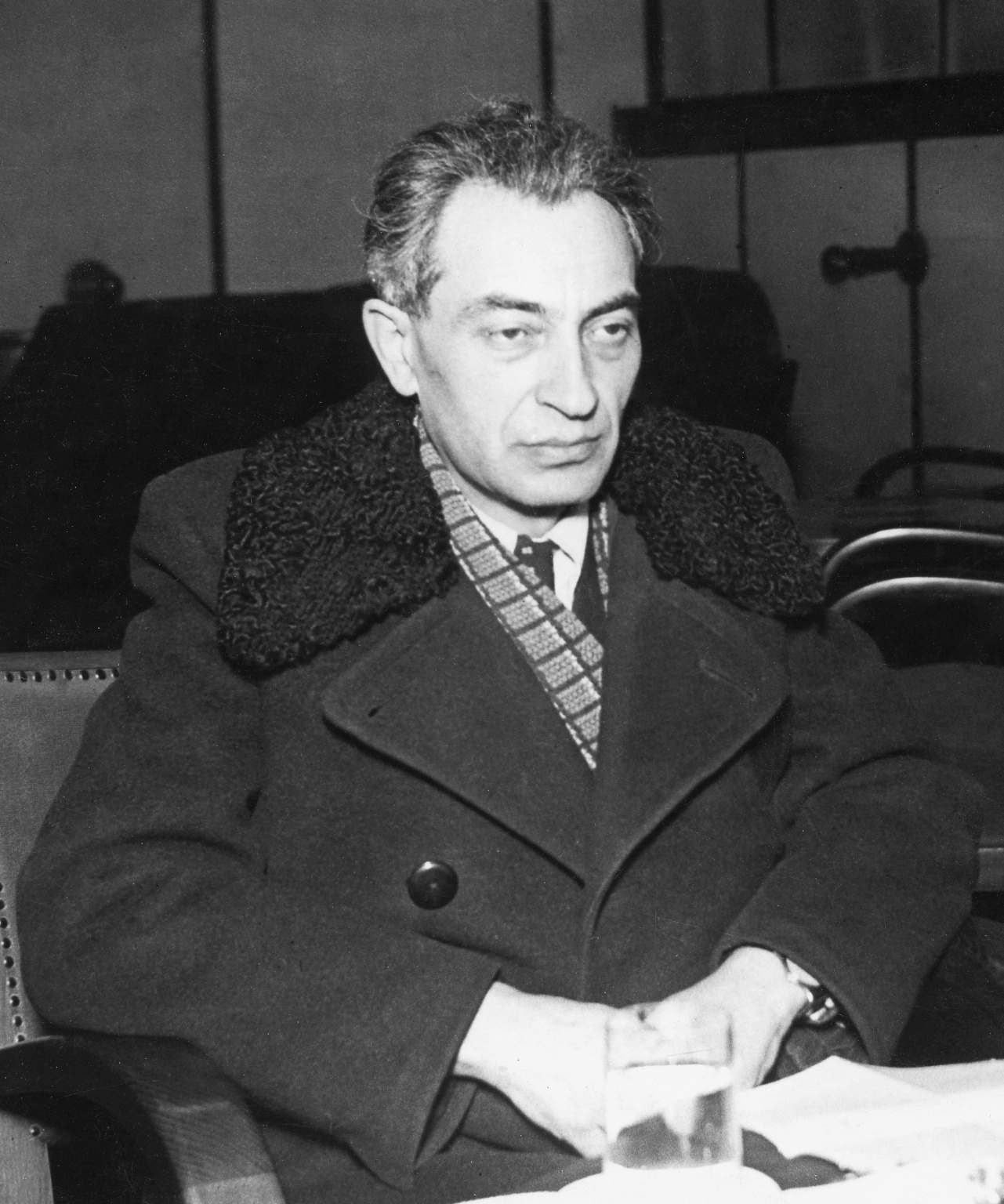 Ernő Gerő in the studio of the Hungarian Radio, 1955